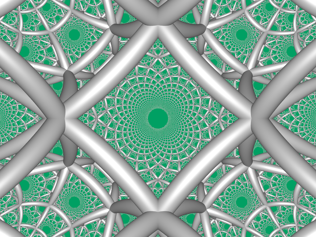 This is the regular {4,4,3} honeycomb in hyperbolic 3-space. The model is face-centered in the Poincare Ball model, with the viewpoint then placed at the ball boundary.